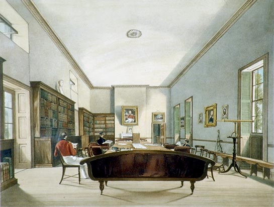 Garrison Library = A Picture from the Garrison Library in Gibraltar - Garrison Library Picture - 1846